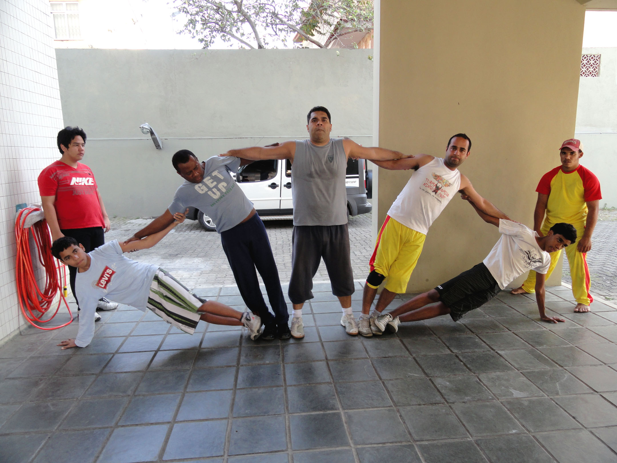 Fan made up of 5 members of gymnastic formation, during a training at Rio de Janeiro, Brazil, in 2011.